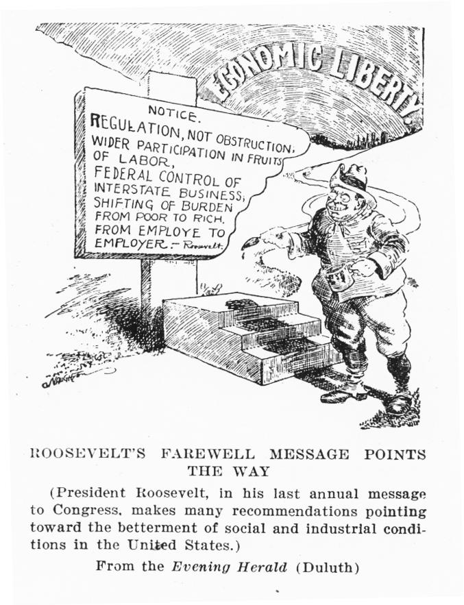 1908 USA editorial cartoon, showing the progressive policies advocated by President Theodore Roosevelt in his farewell address.